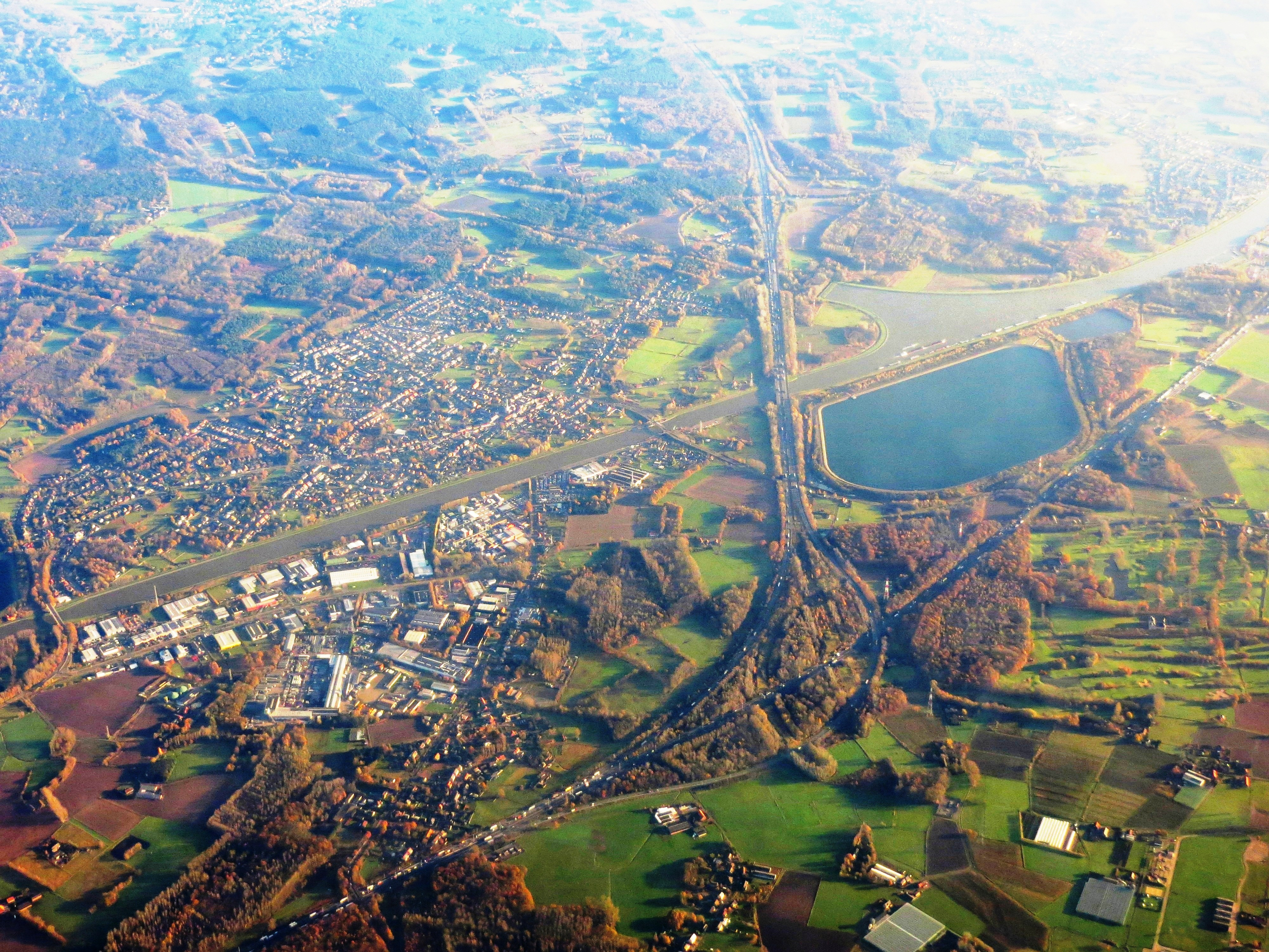 Aerial view from the (south)west towards (north)east, over the Hageland region, in southeastern Antwerpen province - north Belgium.